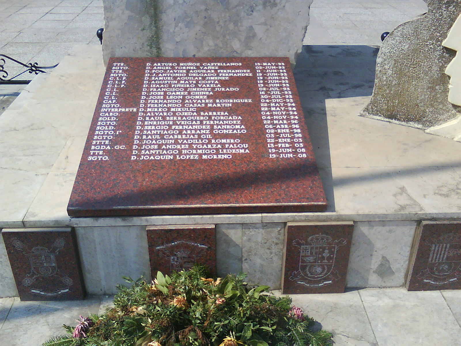 Spanish square in Mostar